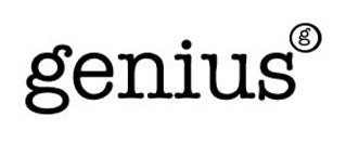 The logo for the television series Genius.